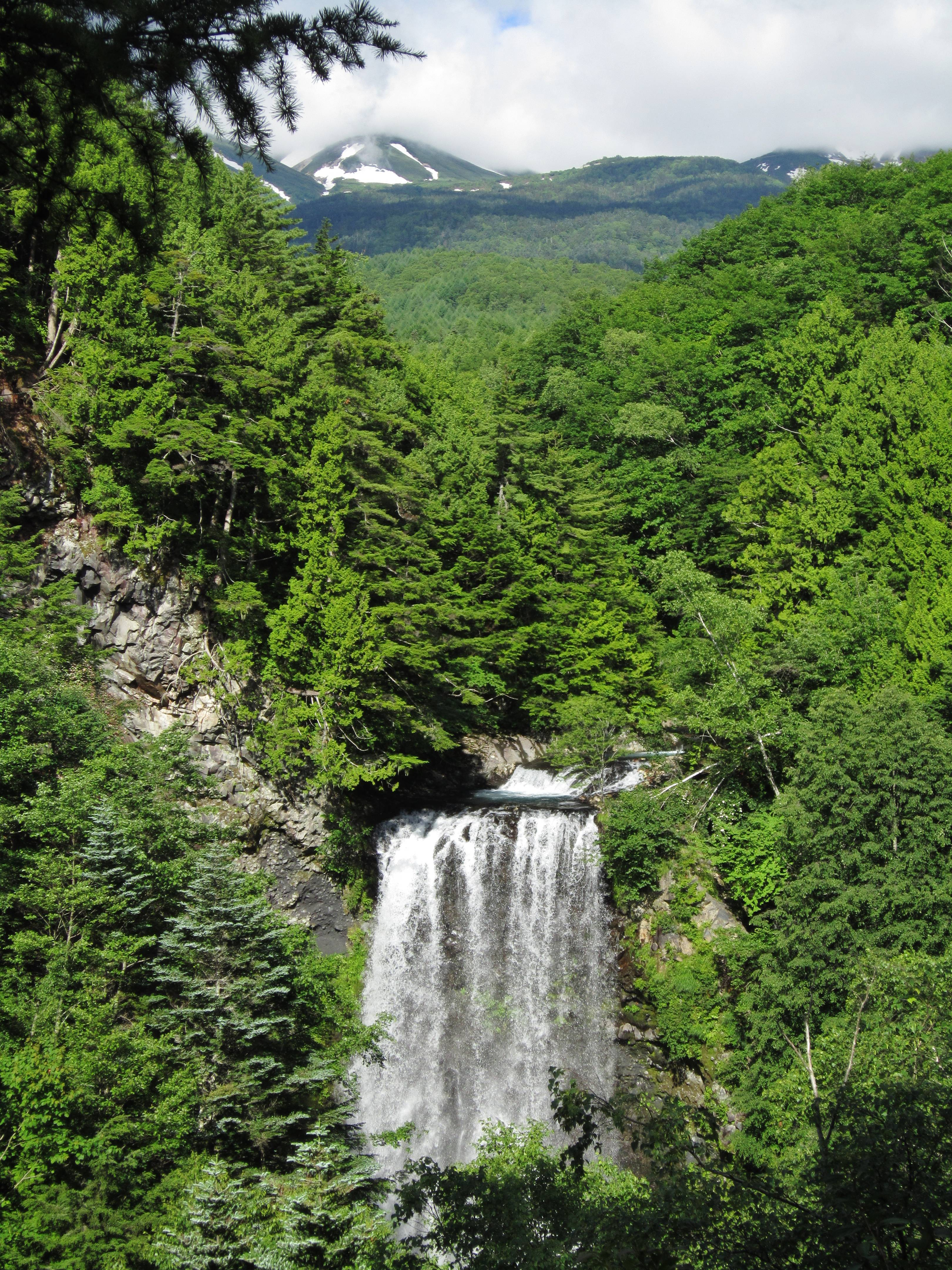 Zengorō Falls.